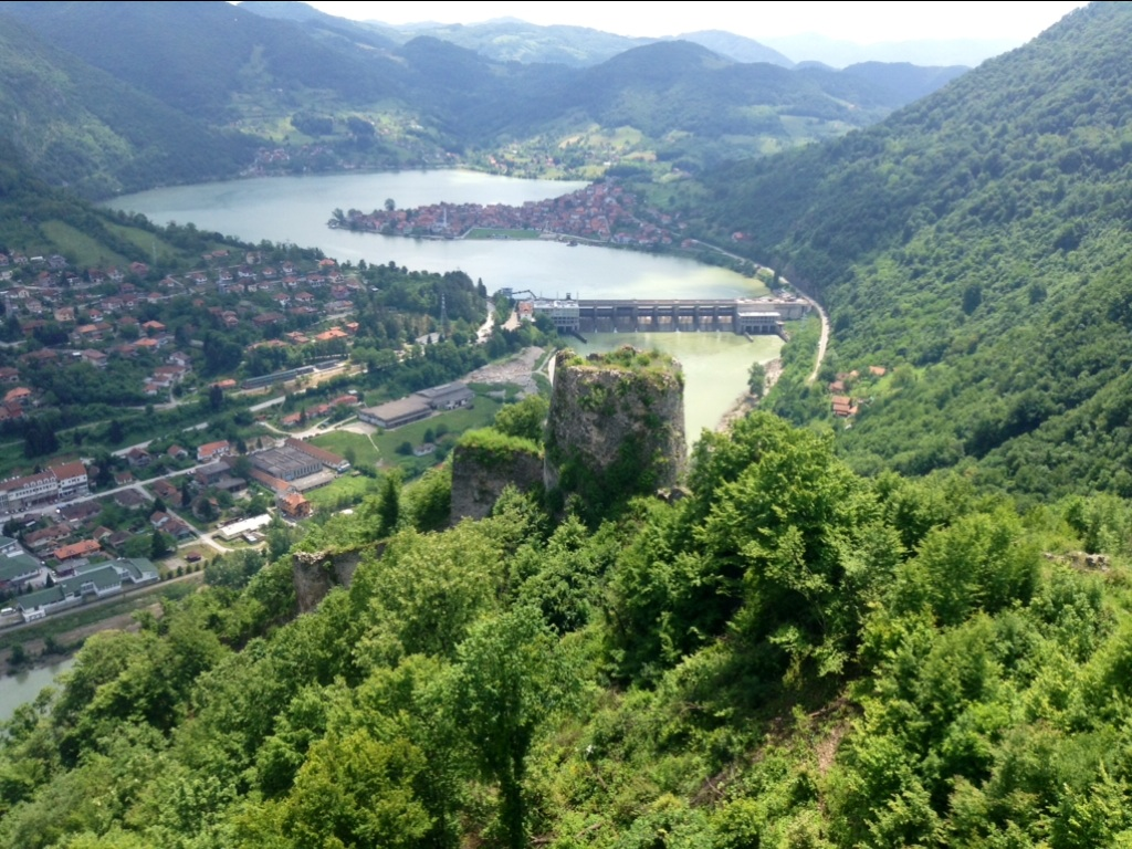 Zvornik fortress (Kula grad), 3 June 2014